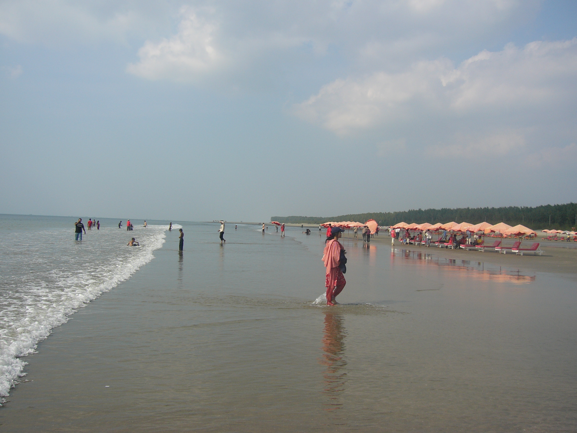 Author Shahnoor Habib Munmun